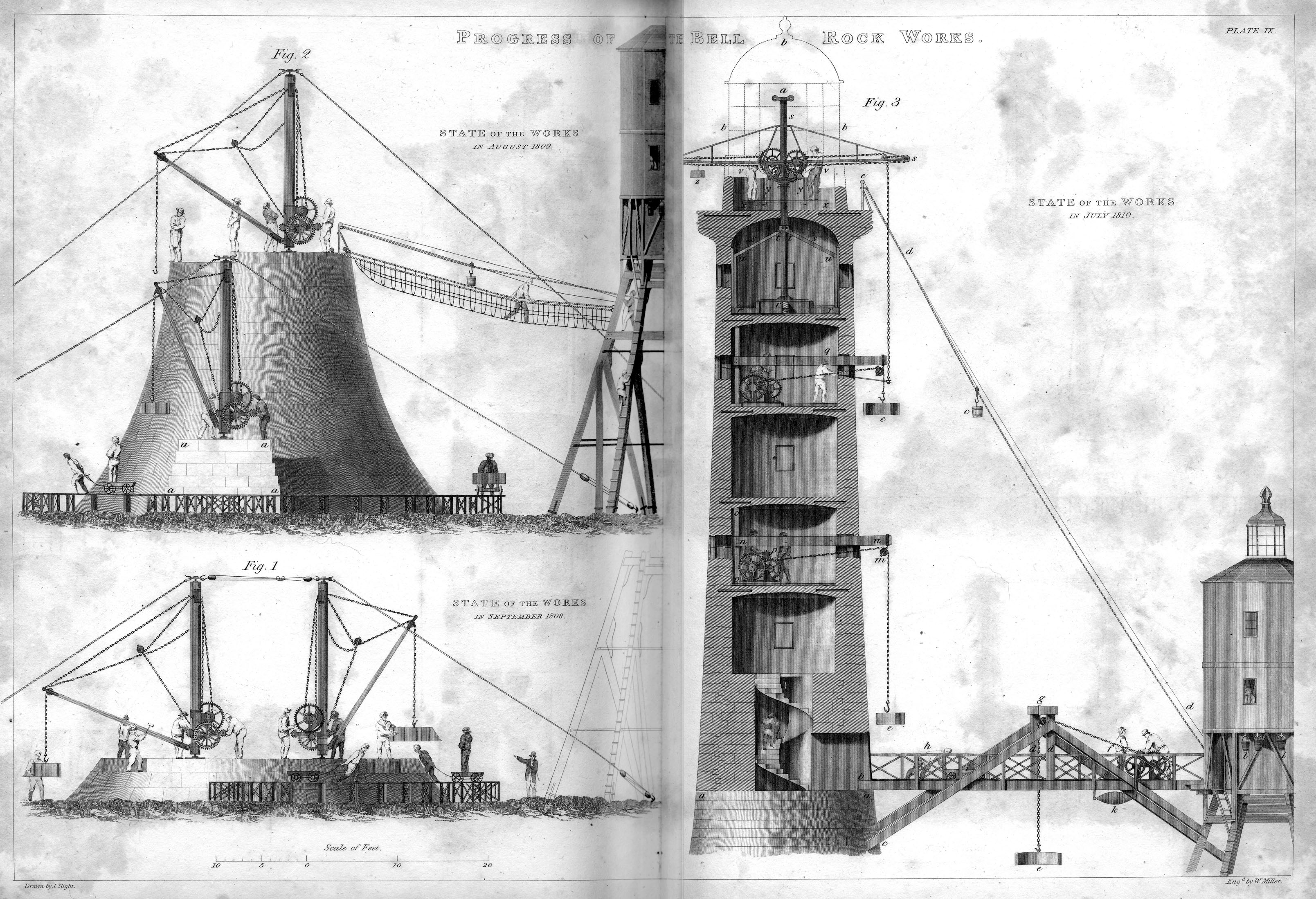 Progress of the Bell Rock Works, engraving by William Miller after J Slight (paid £35-0-0 in ix 1823), published as Figure ix in An Account of the Bell Rock Lighthouse by Robert Stevenson, Edinburgh Printed for Archibald Constable and Co, Edinburgh; Hurst, Robinson and Co and Josiah Taylor, London, 1824